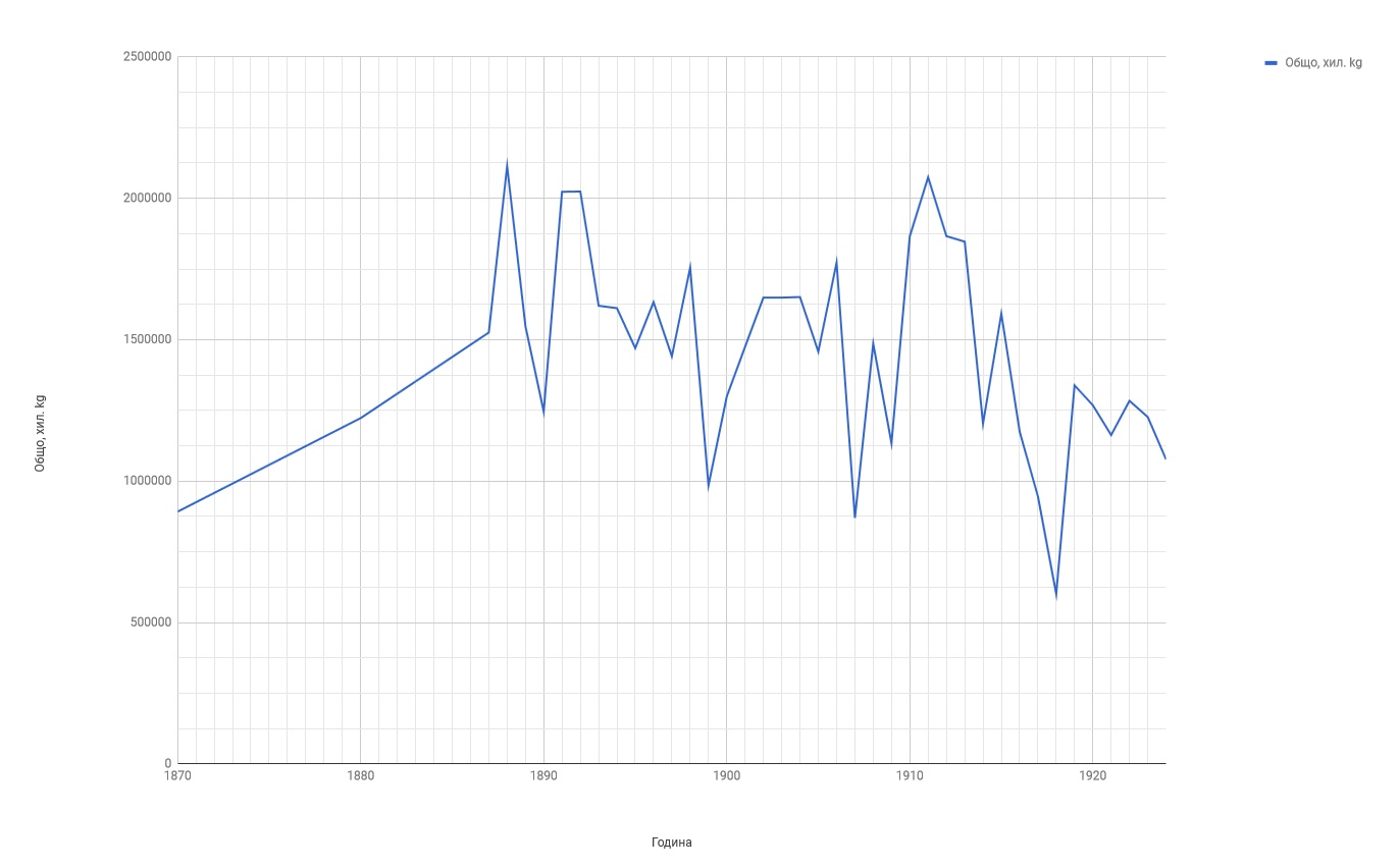 Cereal crops yields in Bulgaria, 1870-1924